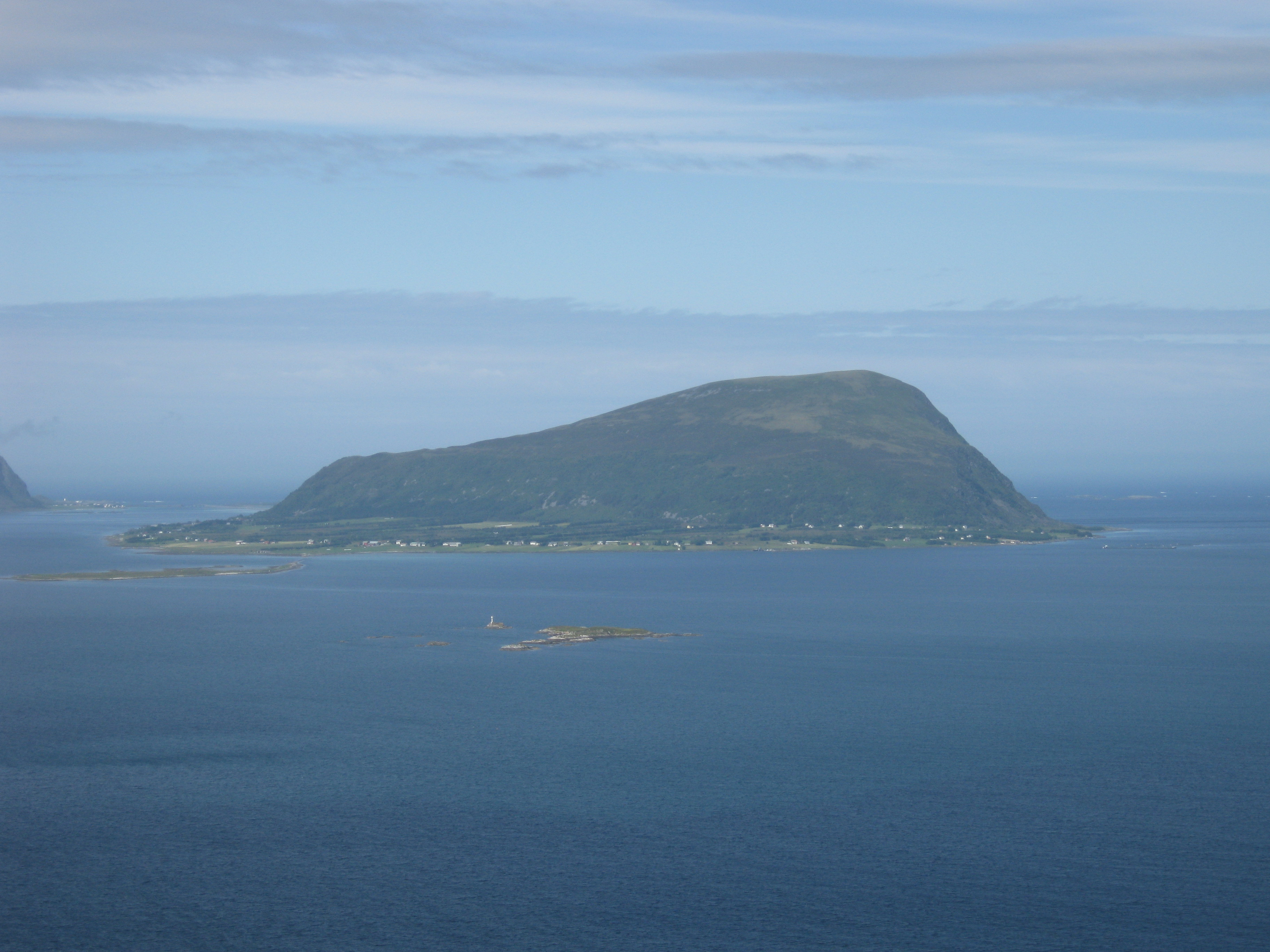 The island Flemsøy in Haram, Møre og Romsdal county, Norway. Picture taken from the slopes of Mt. Hellandshornet, on the mainland